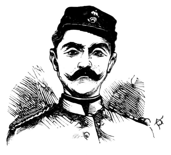 Alexandros Galigalis (?-1886): Greek soldier, illustration from Imerologion Skokou 1887